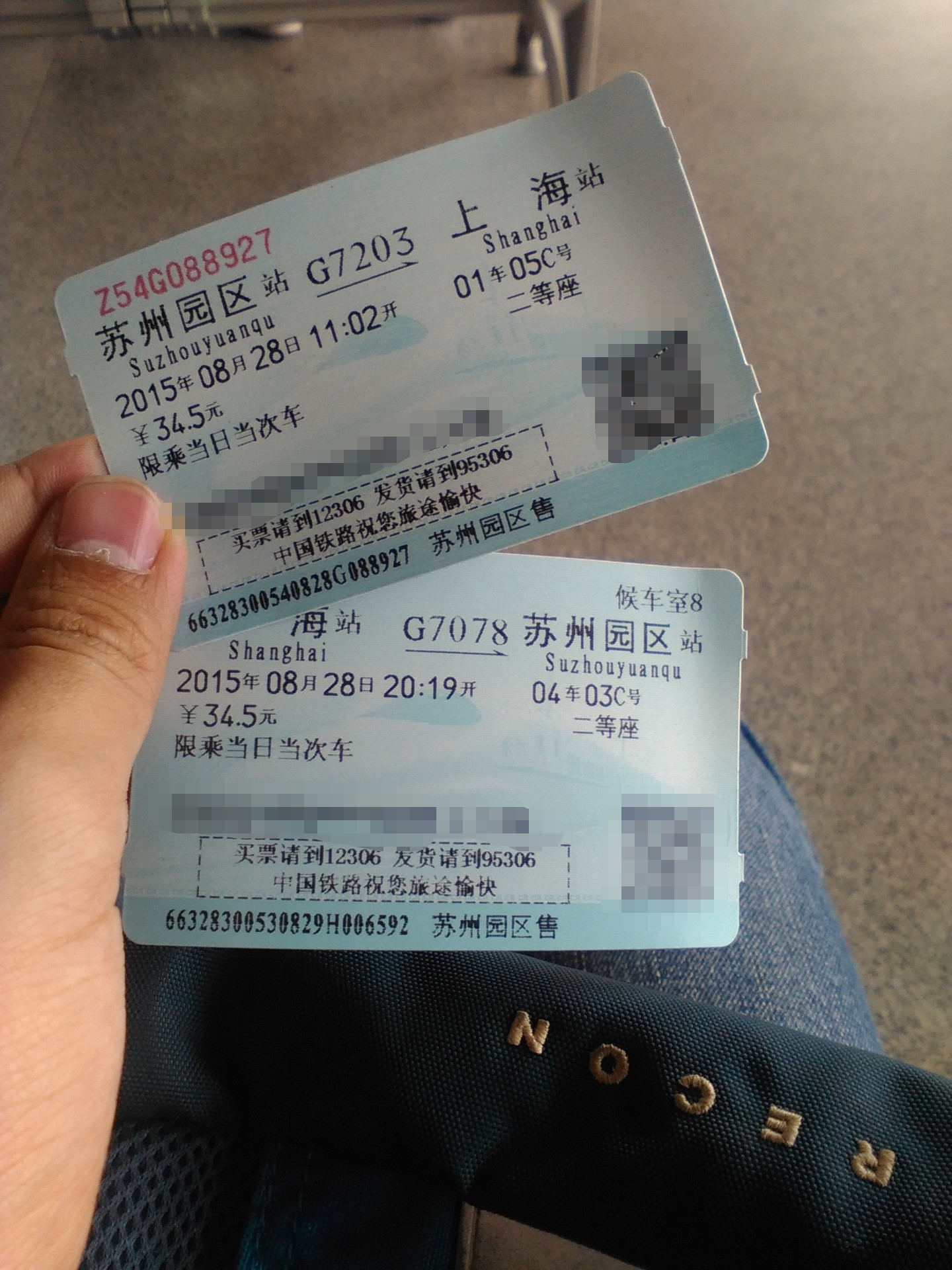 China Railway Ticket (2015 Version)